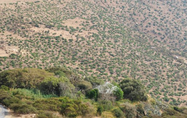 Mennawe in Simret